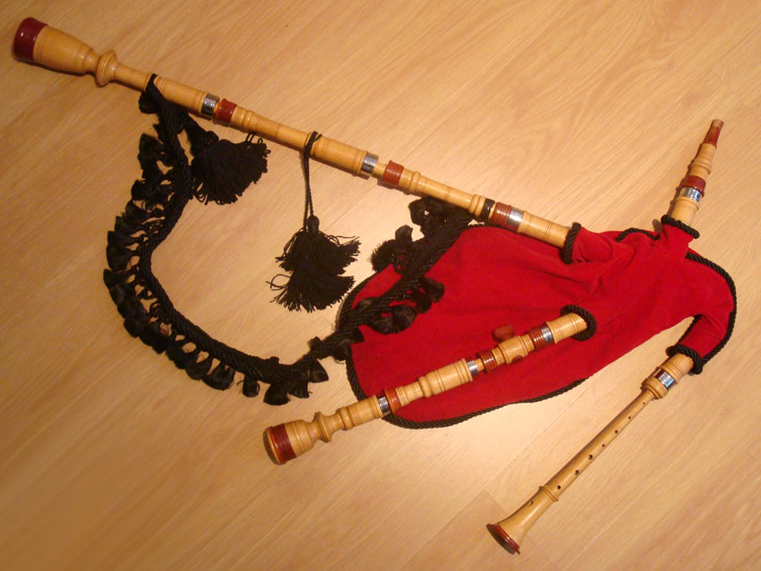 Galician gaita, made with pau-marfim (Agonandra brasiliensis).